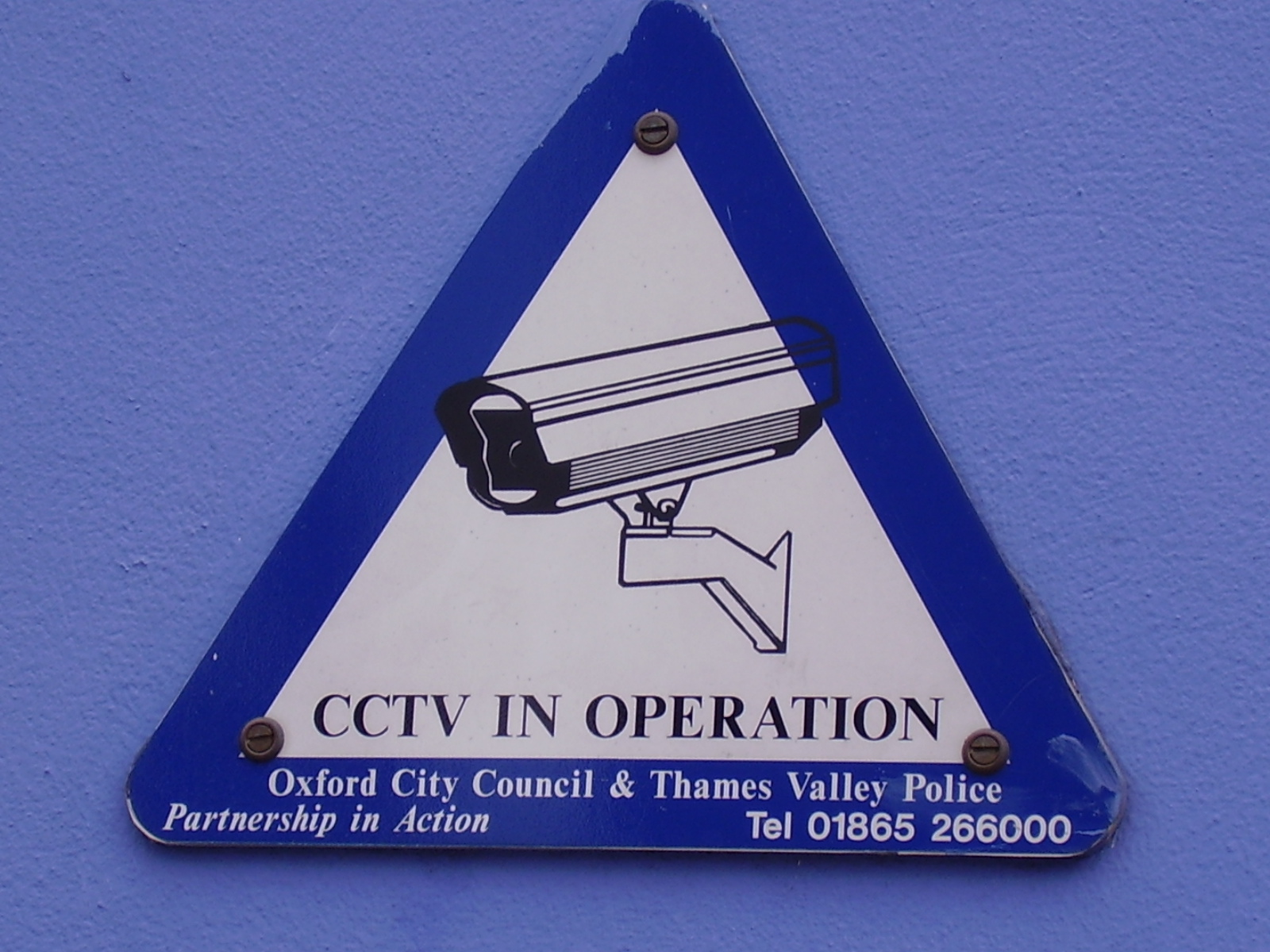 'CCTV in operation' sign in a street in Oxford, England (UK).